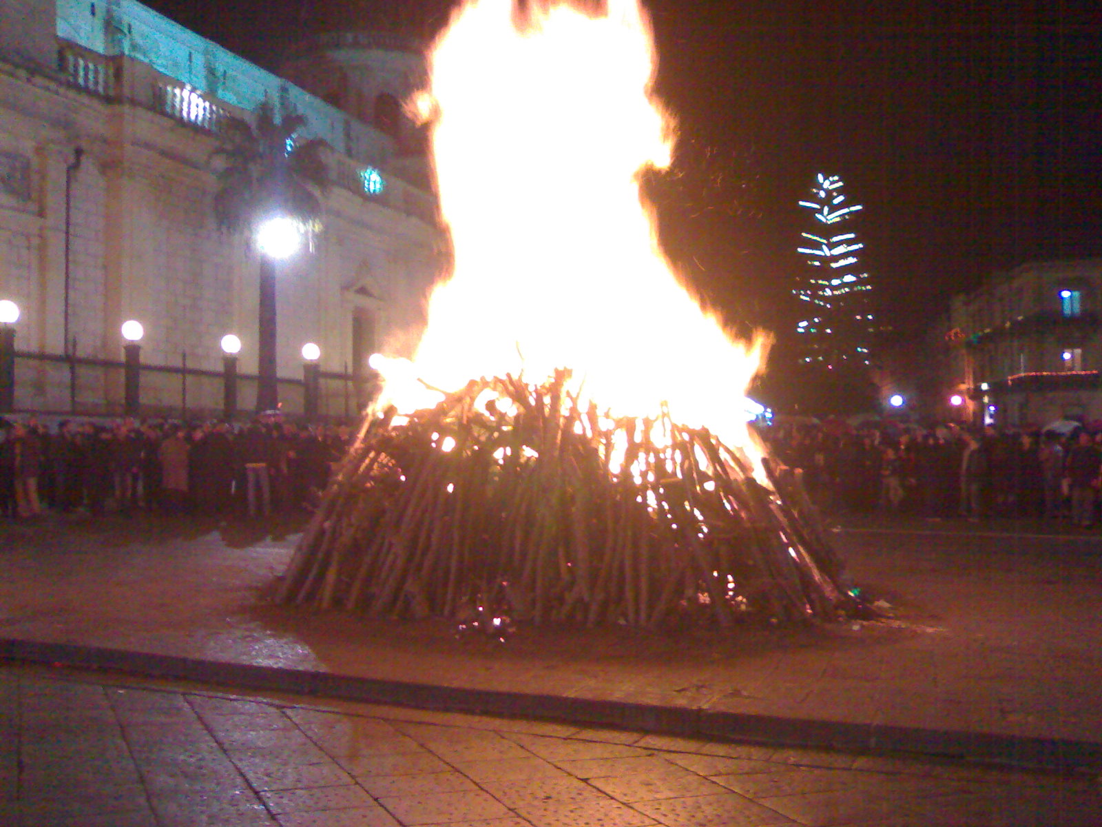 Zuccu, Sicilian tradition, Giarre Sicily, Italy; 2008